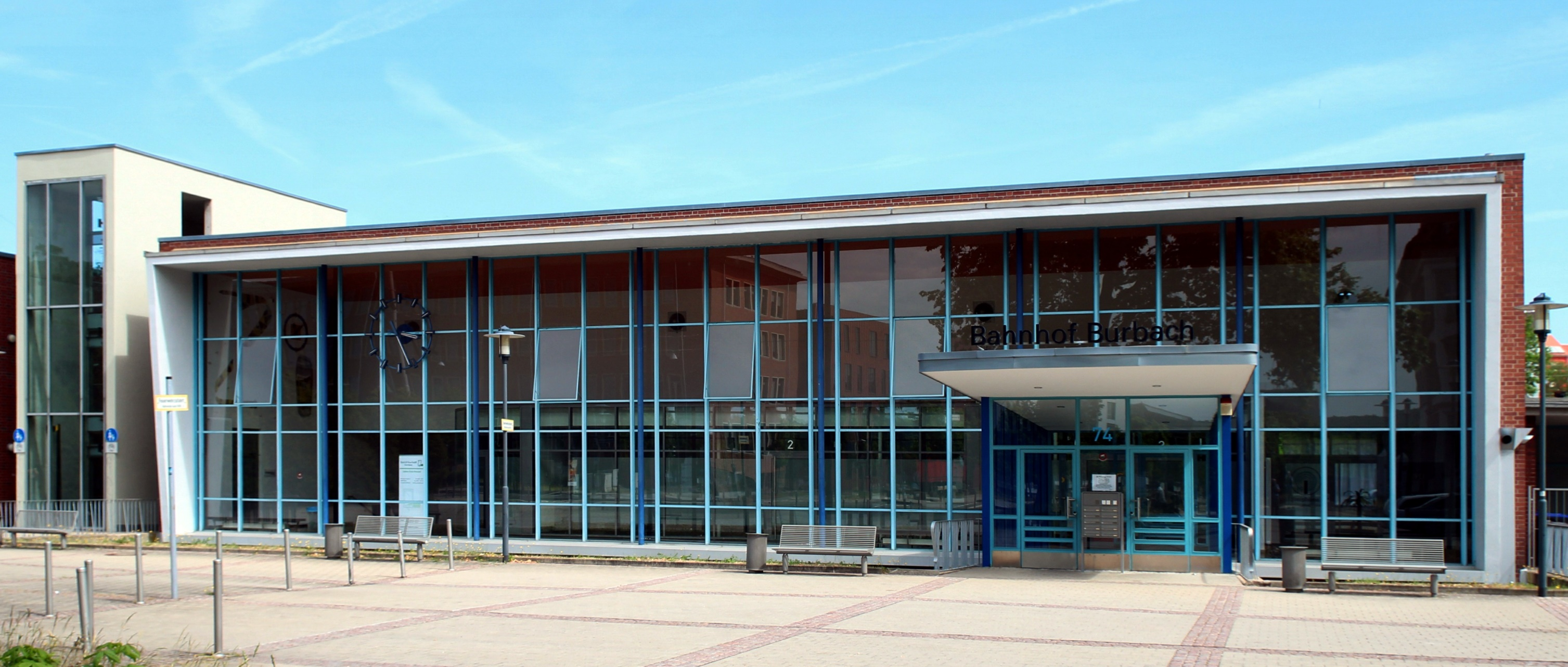 Railway station of Saarbrücken-Burbach